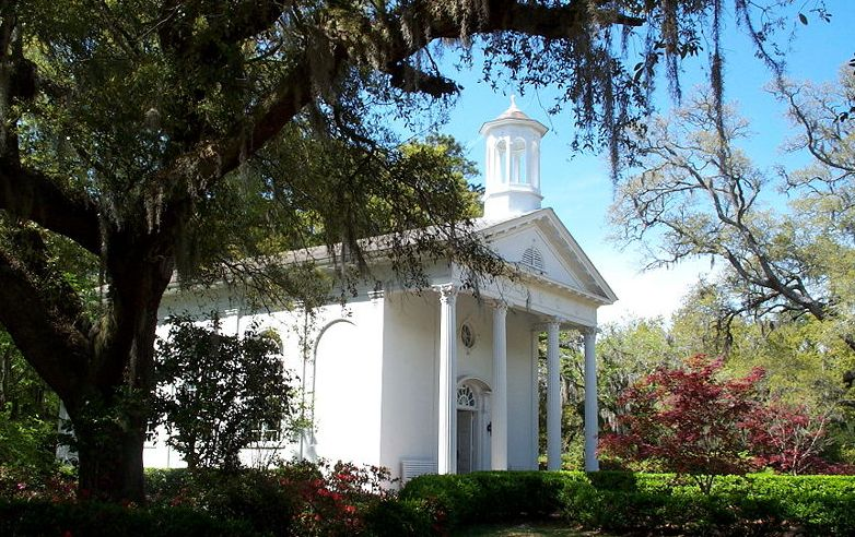 Luola's Chapel at Orton Plantation, North Carolina. Photographed 04/12/2008 Photograph by Janet Cooper-Bridge